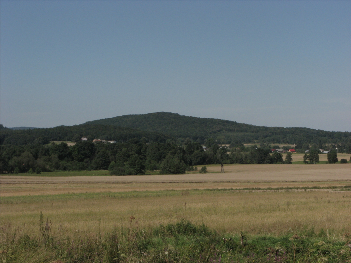 Olszak as seen from Wieszczyna